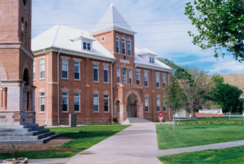 Academia Juárez, Mormon colony, Nuevo Casas Grandes, Chihuahua, Northern Mexico. The school is run by the Church Educational System of The Church of Jesus Christ of Latter-day Saints (Mormons).